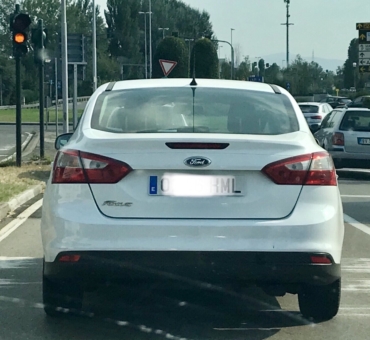 EU-spec Ford Focus sedan 3rd generation rear view